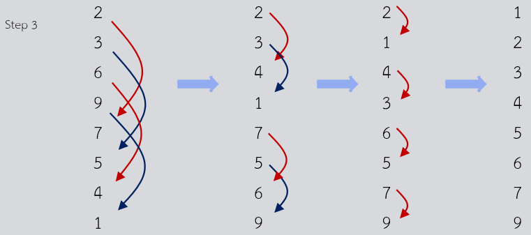 จากขั้นตอนดังกล่าวก็จะได้ไบโตนิคที่เรียงลำดับแล้ว